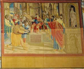 Rapahel tapestry Tapestry Musei Vaticani, Rome